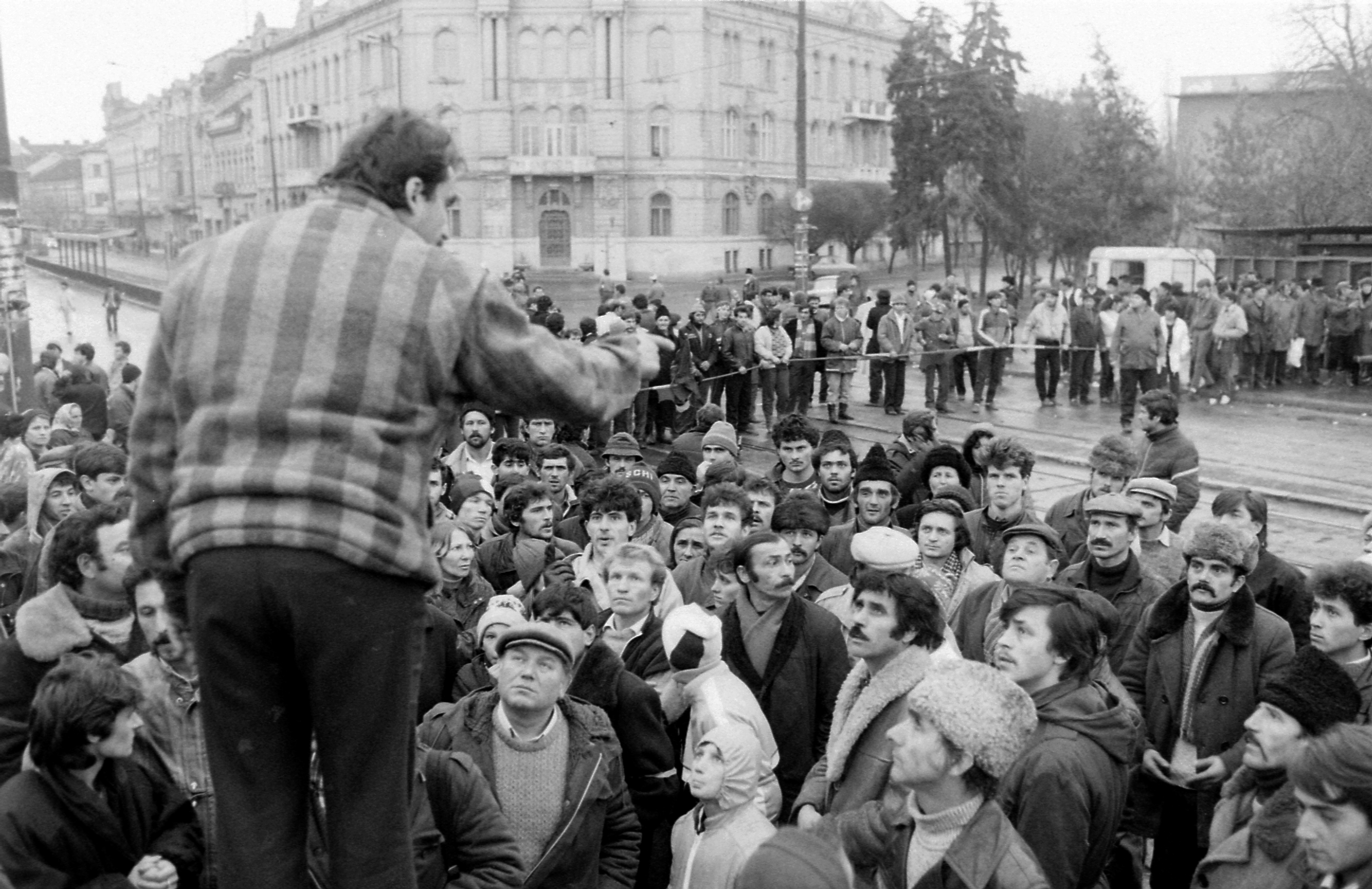 December 1989 demonstration in Timișoara at Tudor Vladimirescu road and 16 December 1989 Avenue intresection. Location: Romania, Banat, Timisoara Title: 1989 December 16. sugárút és a Tudor Vladimirescu út kereszteződése.